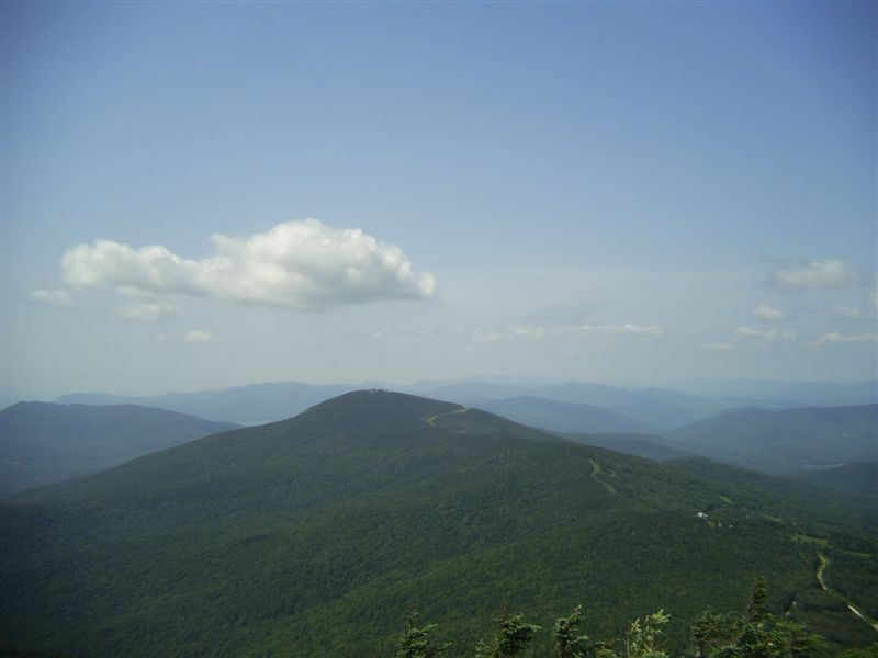 This is a view taken from the top of Mt. Killington with Pico Mt. in the background.